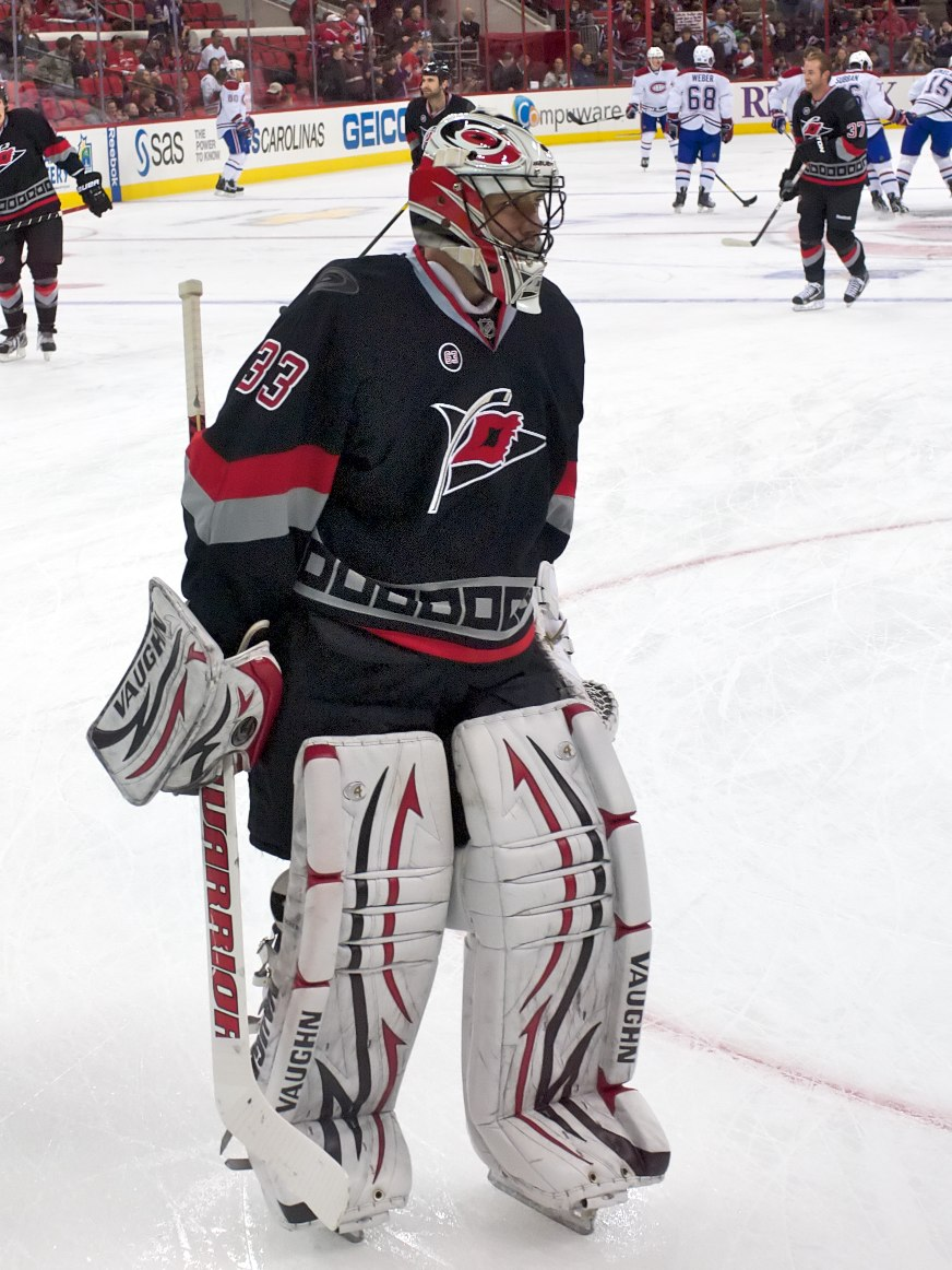 Brian Boucher of the Carolina Hurricanes